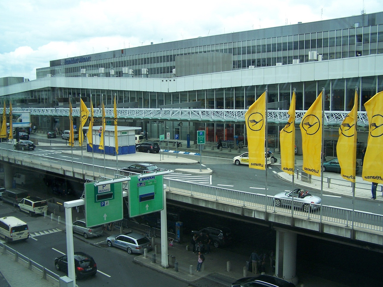 Frankfurt Airport, Terminal 1 (landside view)